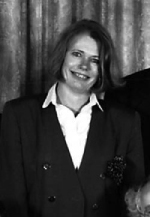 1992 Byzantine Studies Symposium Group at Dumbarton Oaks. Back row (standing) from left to right: Henry Maguire, Ioli Kalavrezou, Gilbert Dagron, Marie-Theres Fogen, J.H.A. Lokin, Angeliki E. Laiou, Dr. Paul Magdalino, Ruth Macrides, George T. Dennis Front row (seated) from left to right: Anna Kartsonis, Aleksandr Kazhdan, Dieter Simon, Kathleen Anne Corrigan, Ioannes M. Konidares, Helen Saradi-Mendelovici